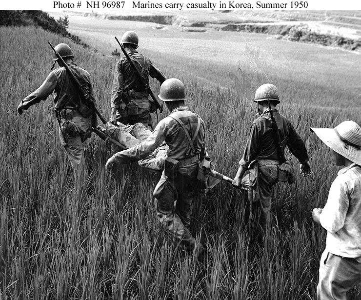 Marine Stretcher Bearers Carry a wounded Marine from the front lines to a forward aid station, in Korea, circa August 1950.